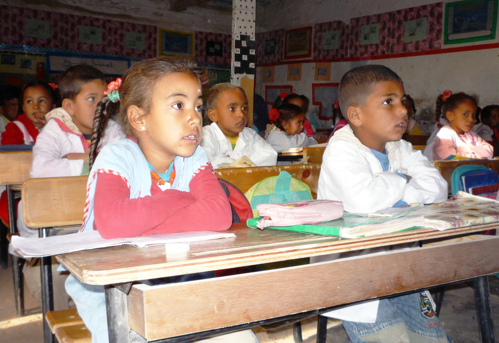 Hygiene awareness campaigns and sanitation to reduce the risk of diseases have also been funded, especially in schools. Classrooms are full. The children learn Arabic and Spanish, maths, reading and writing, and later science subjects.